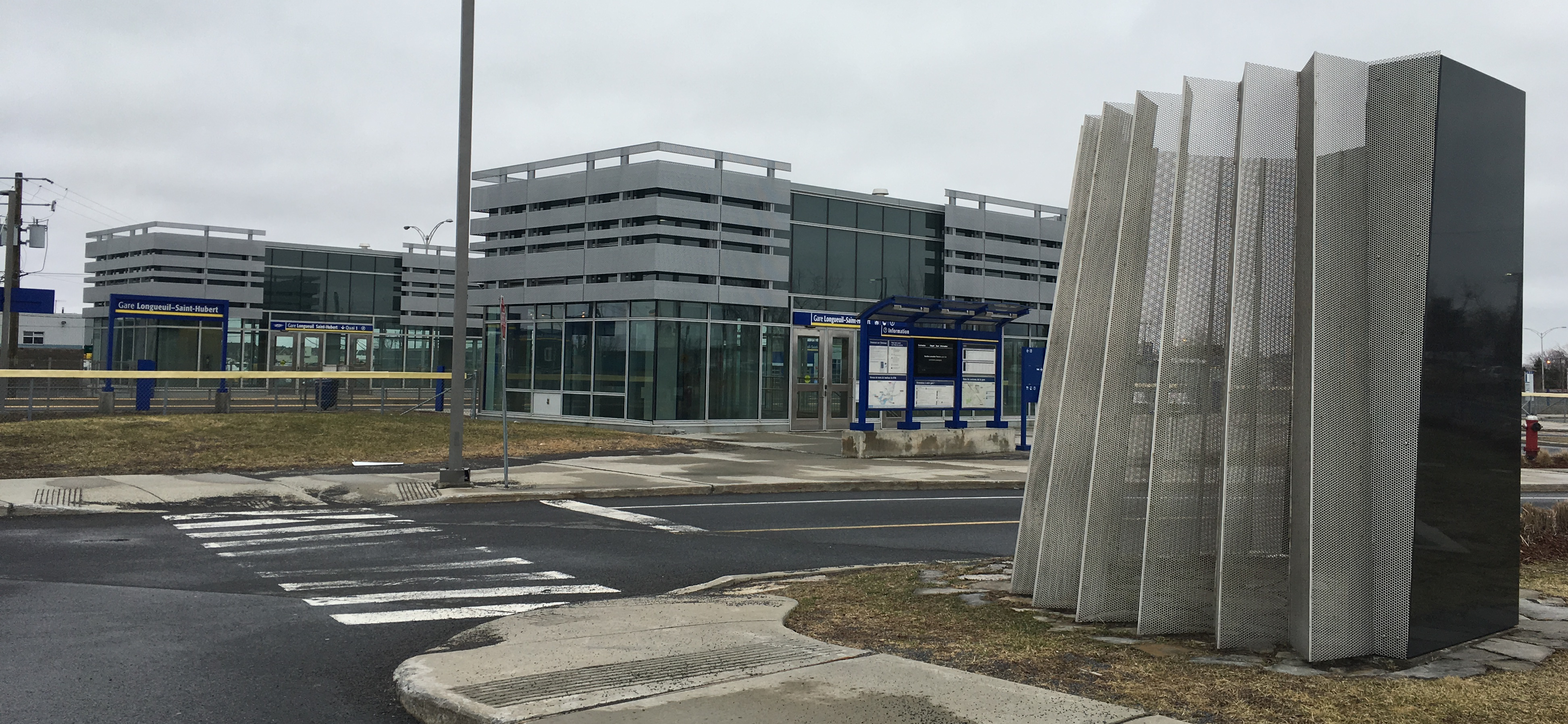 Building of the Longueuil-Saint-Hubert (exo) train station